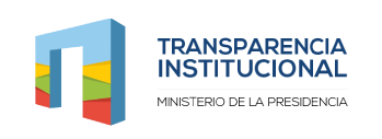 Logo del Ministerio de la Presidencia